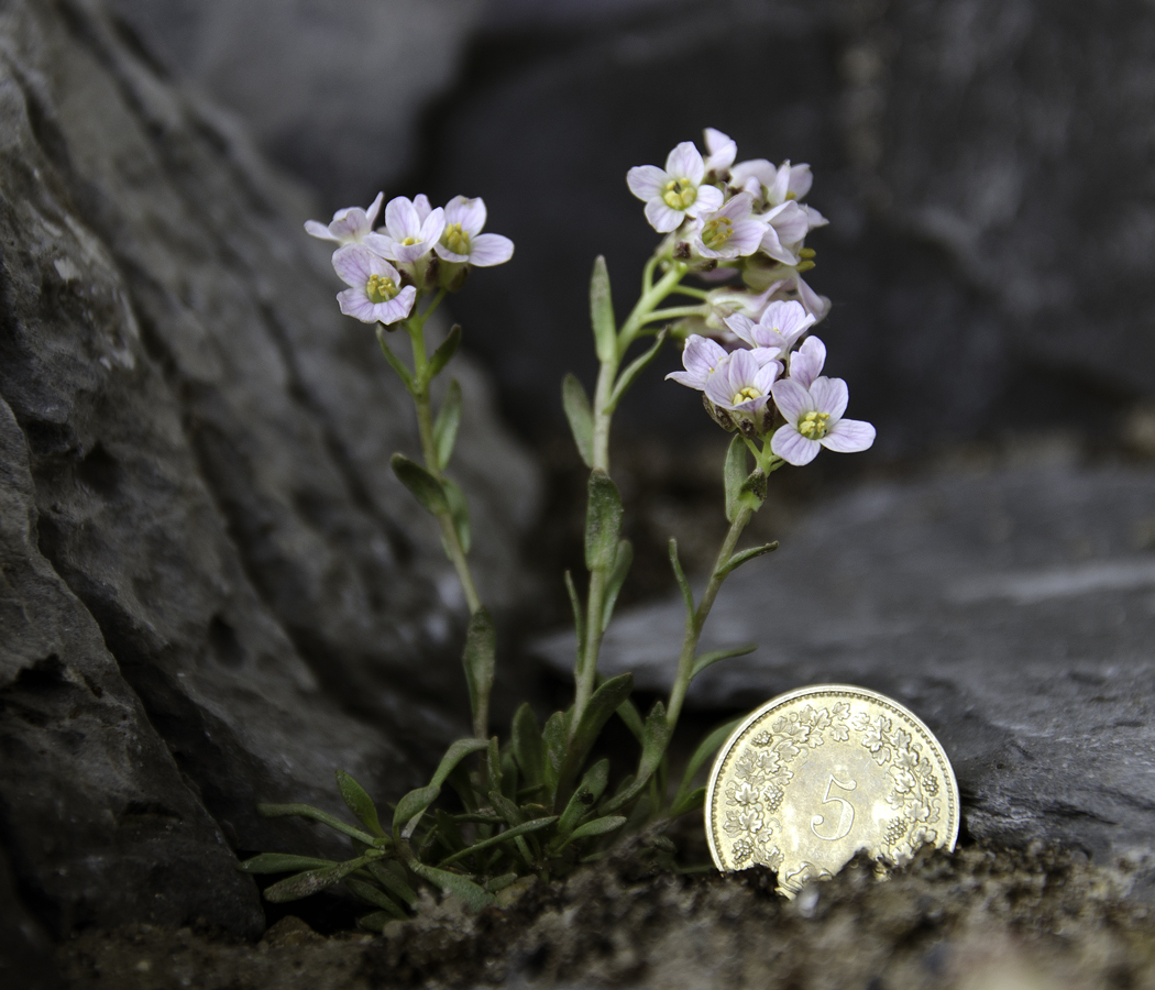 Family: Brassicaceae Species: Thlaspi kurdicum As a scale, a Swiss 5 centimes coin is shown, with a diameter of 17.15 mm.